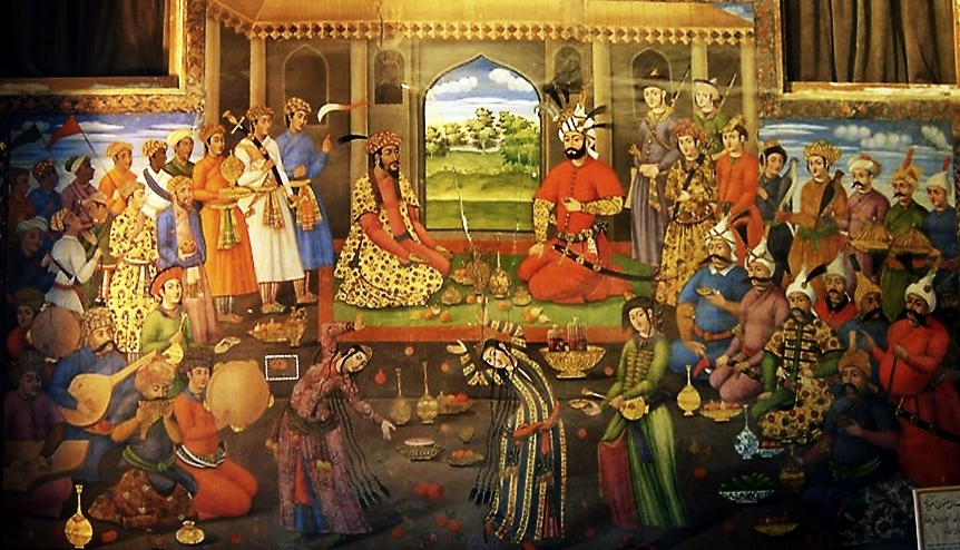 Shah Tahmasp I and Humayun. From Chehel Sotoun palace, Isfahan.